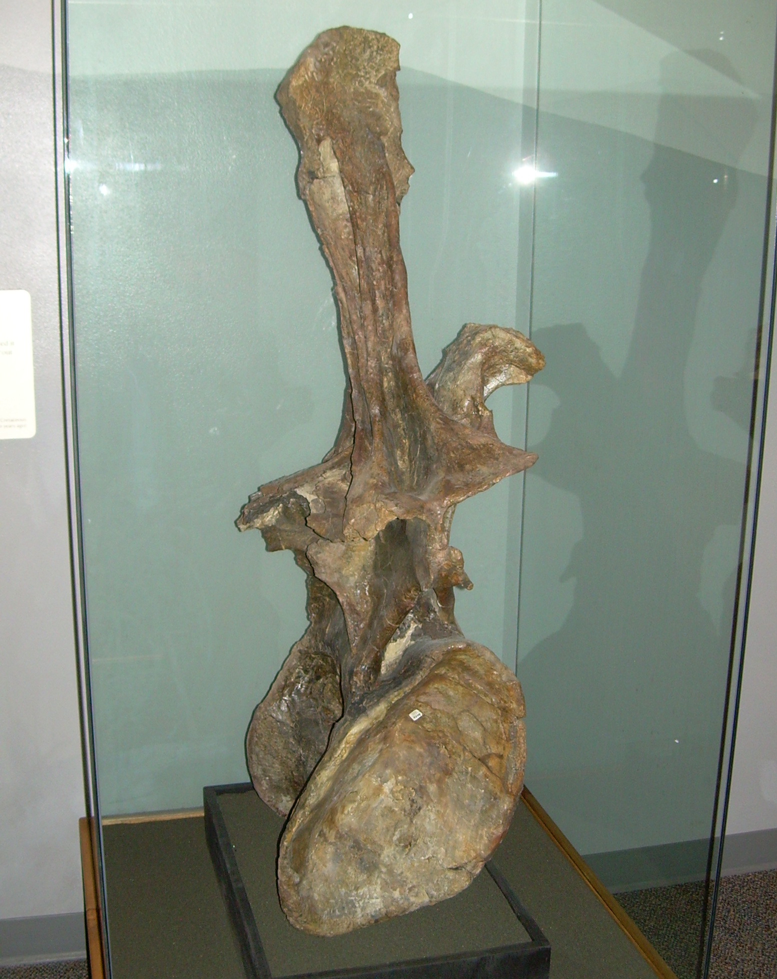 Photograph of a fossil cast of a Supersaurus vivianae dorsal vertebra (the holotype of Ultrasauros) taken at the North American Museum of Ancient Life.